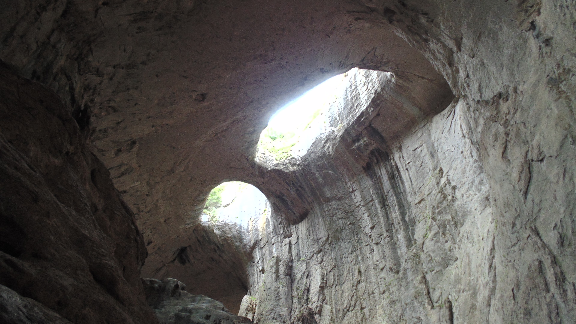 The cave Prohodna - The Eyes of God